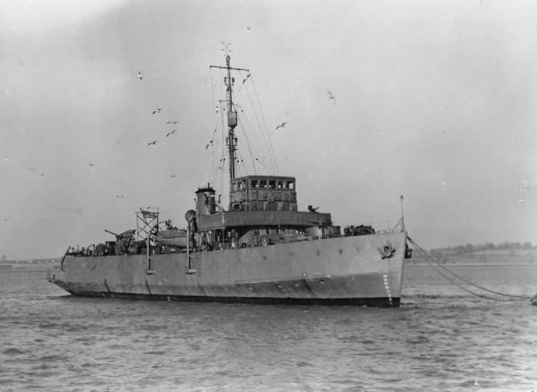 Photograph of British minelayer HMS Plover.